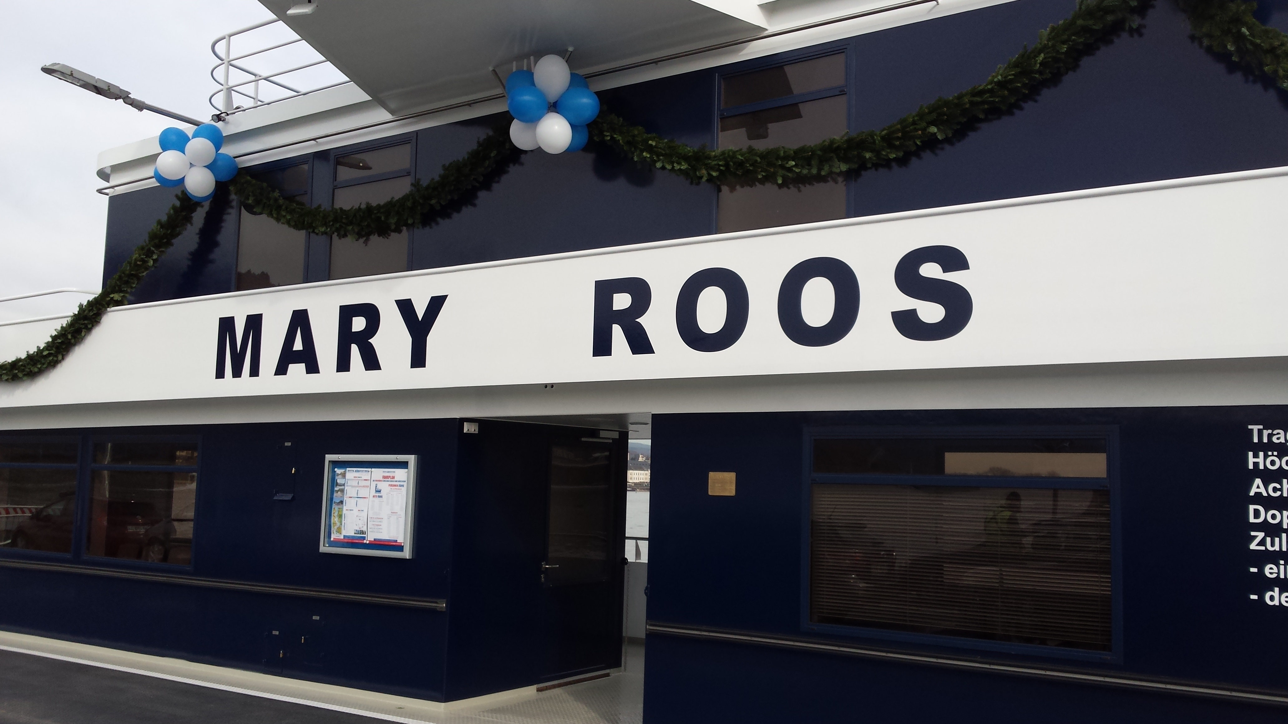 Ferry Mary Roos, Bingen/Rüdesheim